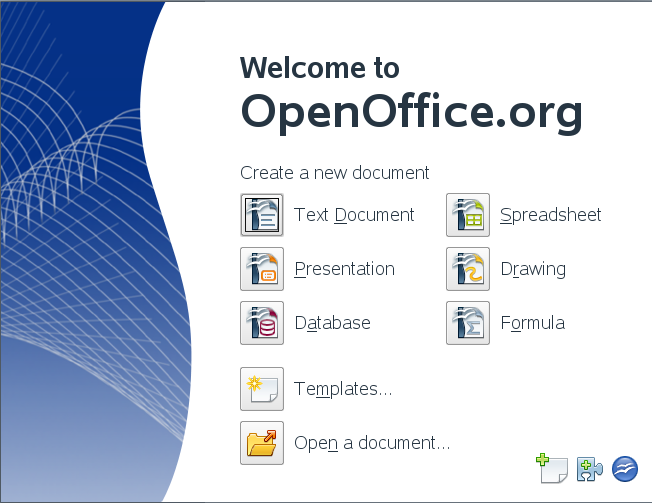 3.0 application chooser